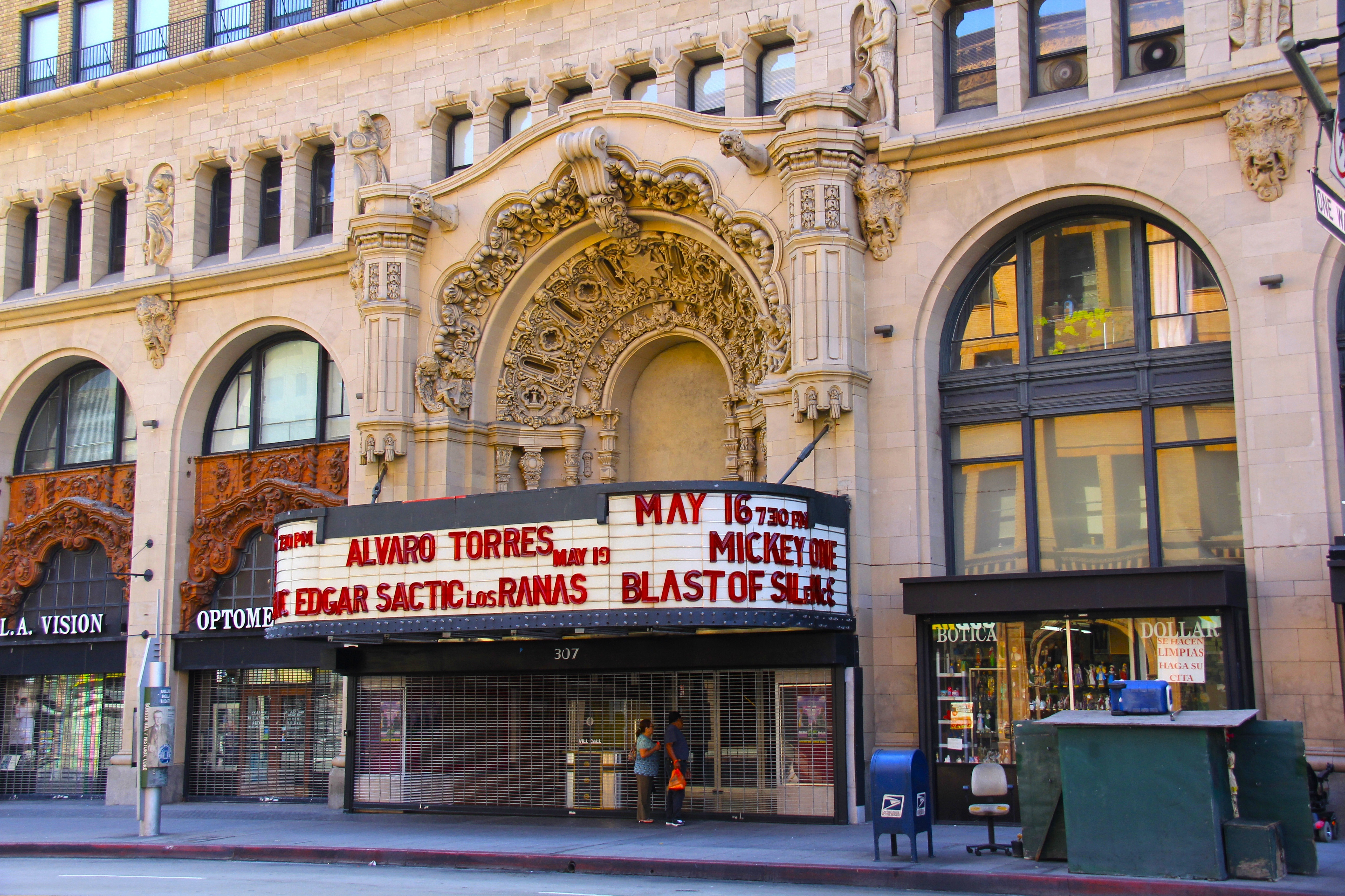 Broadway Theater and Commercial District, 300-849 S. Broadway; also 242, 248-260, 249-259, 900-911, 908-910, 921-937, and 930-947 S. Broadway Downtown Los Angeles